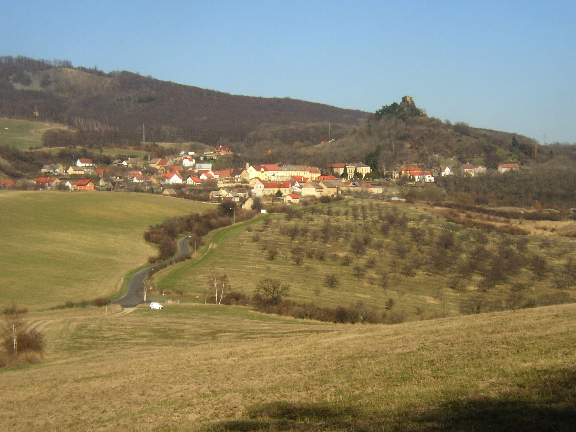 České středohoří, Czech Republic. Kamýk (village and castle ruin of the same name) near Litoměřice as seen from southwest, from slopes of Strážiště (362 m).